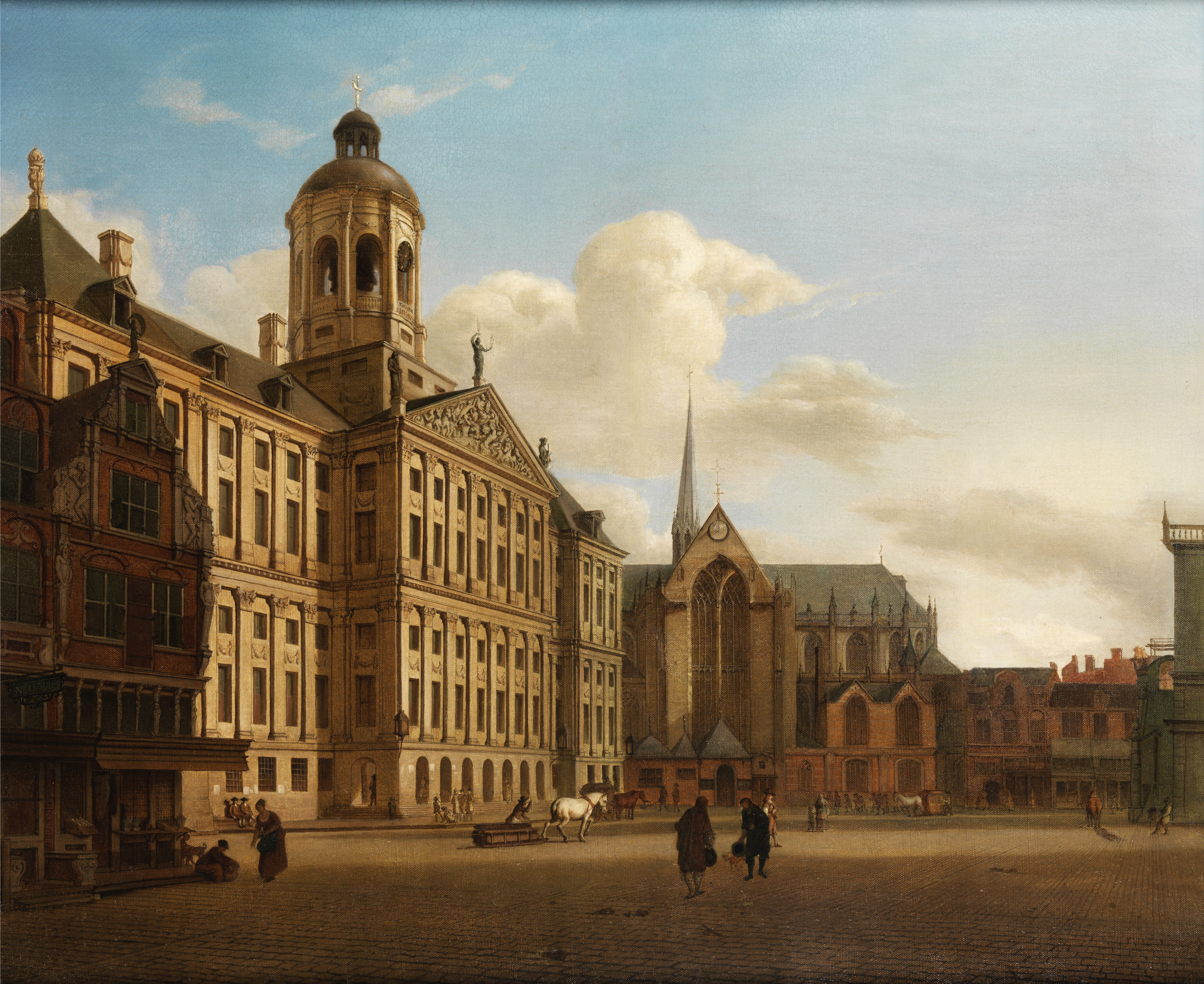 After a painting by Jan van der Heyden in the Louvre, Paris.